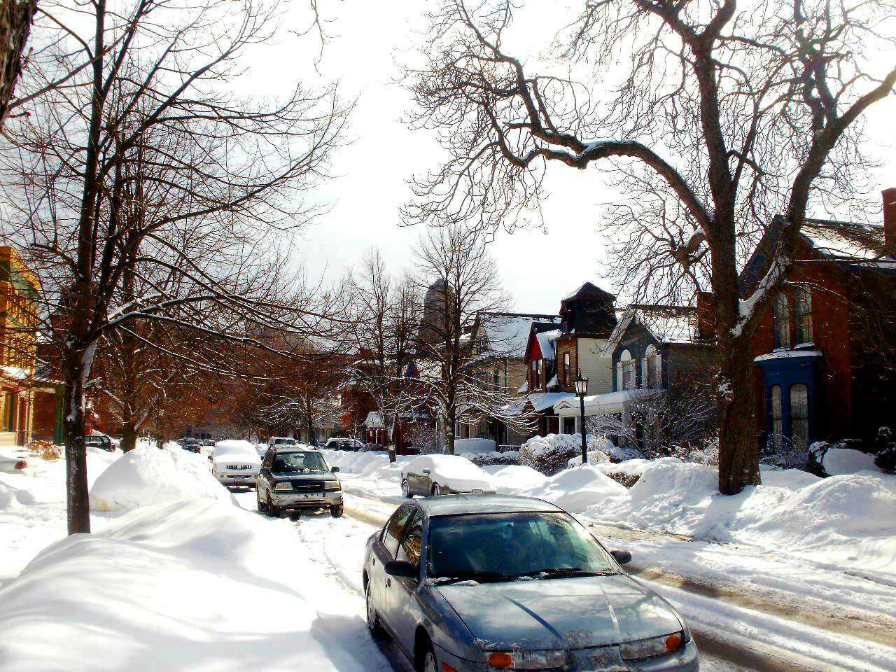 After a snow storm in Buffalo's historic West Village.